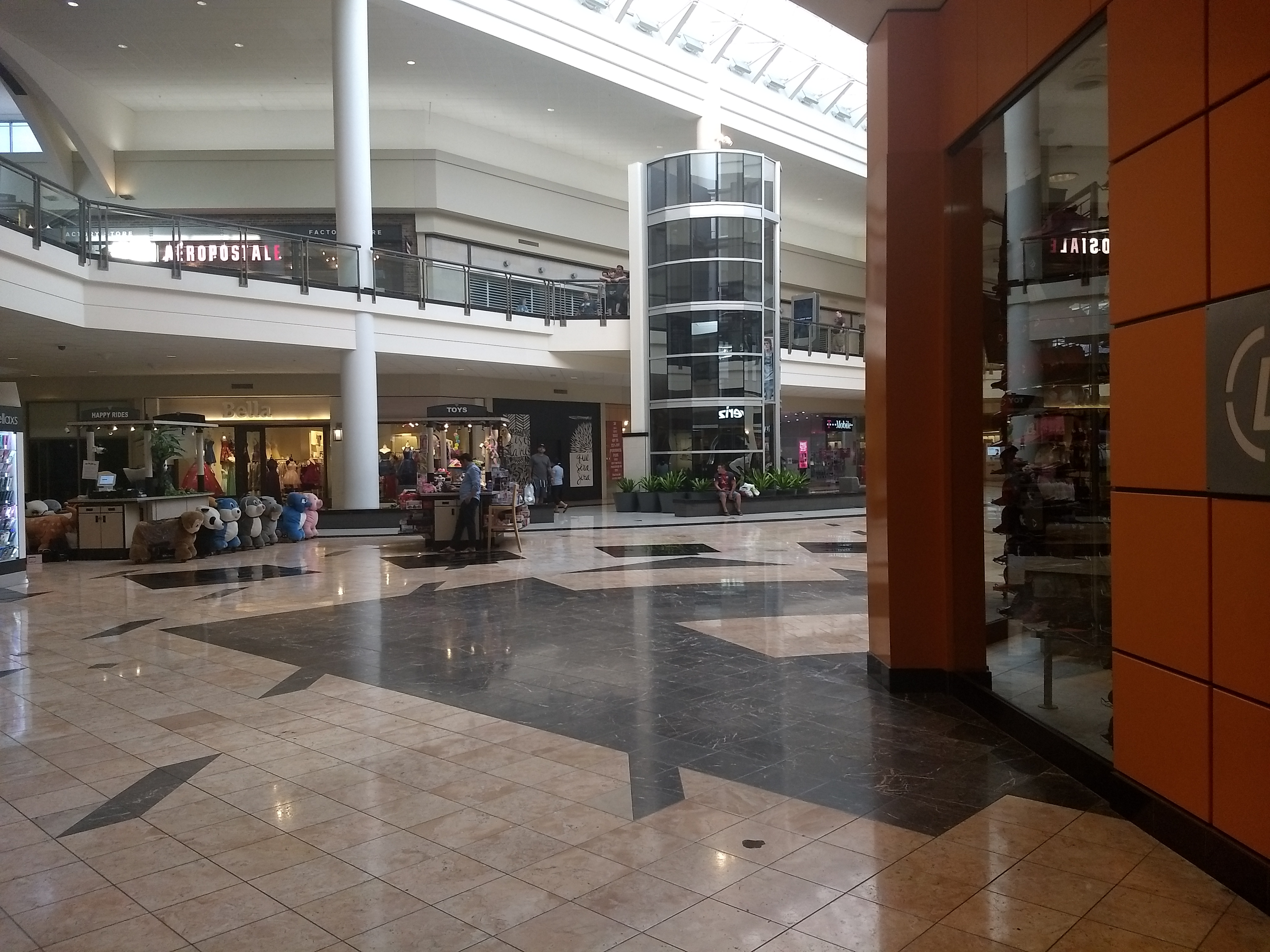 Looking towards the center court at Florence "Y'all" Mall